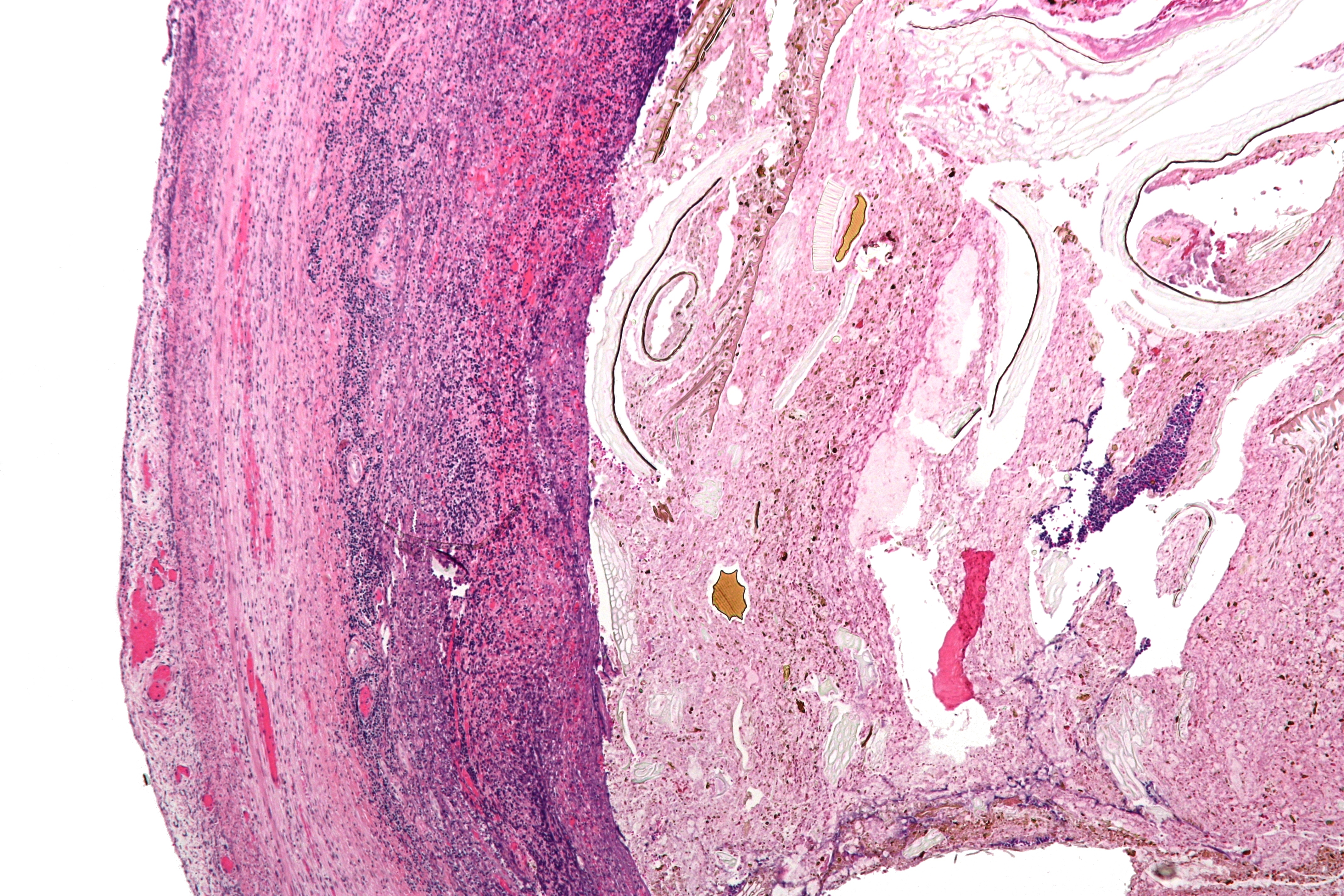 Low magnification micrograph of acute appendicitis and periappendicitis. H&E stain. Acute appendicitis is characterized histologically by neutrophils in the muscularis propria. Related images Low mag. Very high mag.